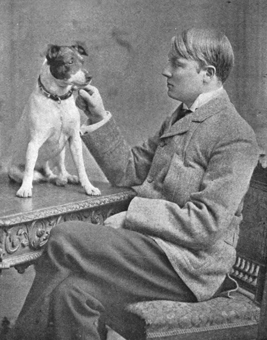 Alfred Harmsworth